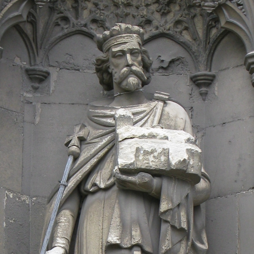 Sculpture of King Æthelberht of Kent on Canterbury Cathedral.